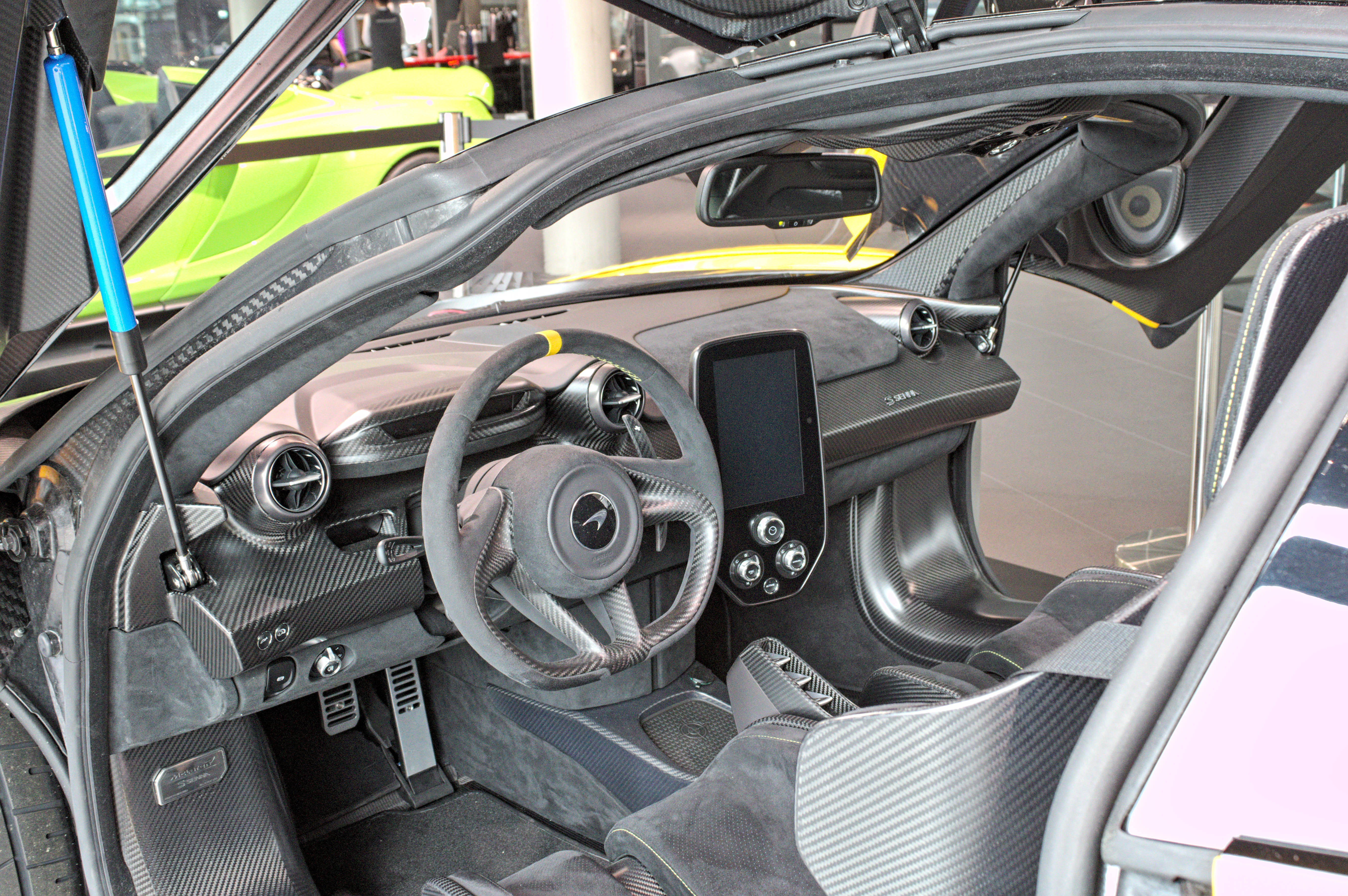 McLaren_Senna in Böblingen